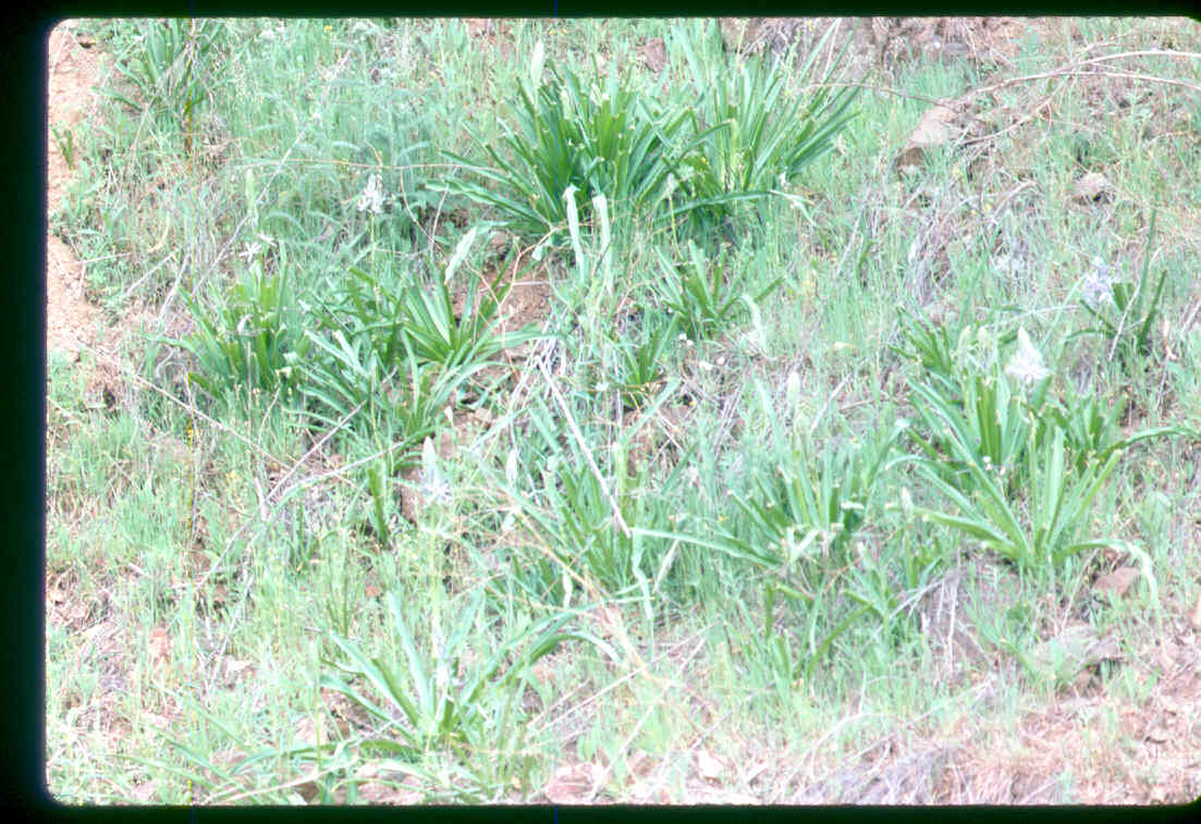 Camassia cusickii plants in SW Idaho